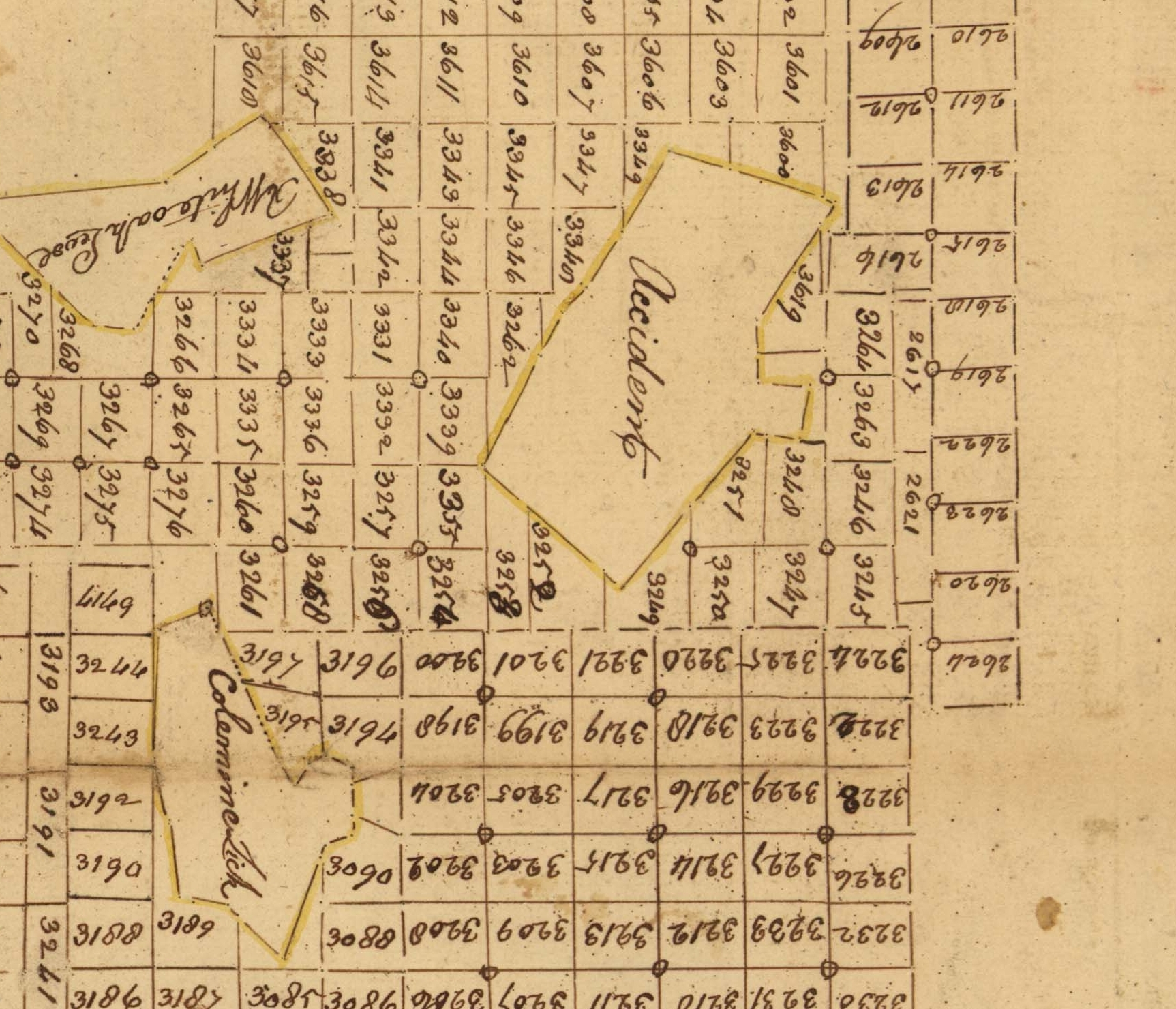 Francis Deakins 1787 survey of lots westward of Fort Cumberland, Maryland. Excerpt from an exhibit in a Supreme Court Case involving the border between West Virginia and Maryland (Maryland v. West Virginia, 217 U.S. 1 (1910)).